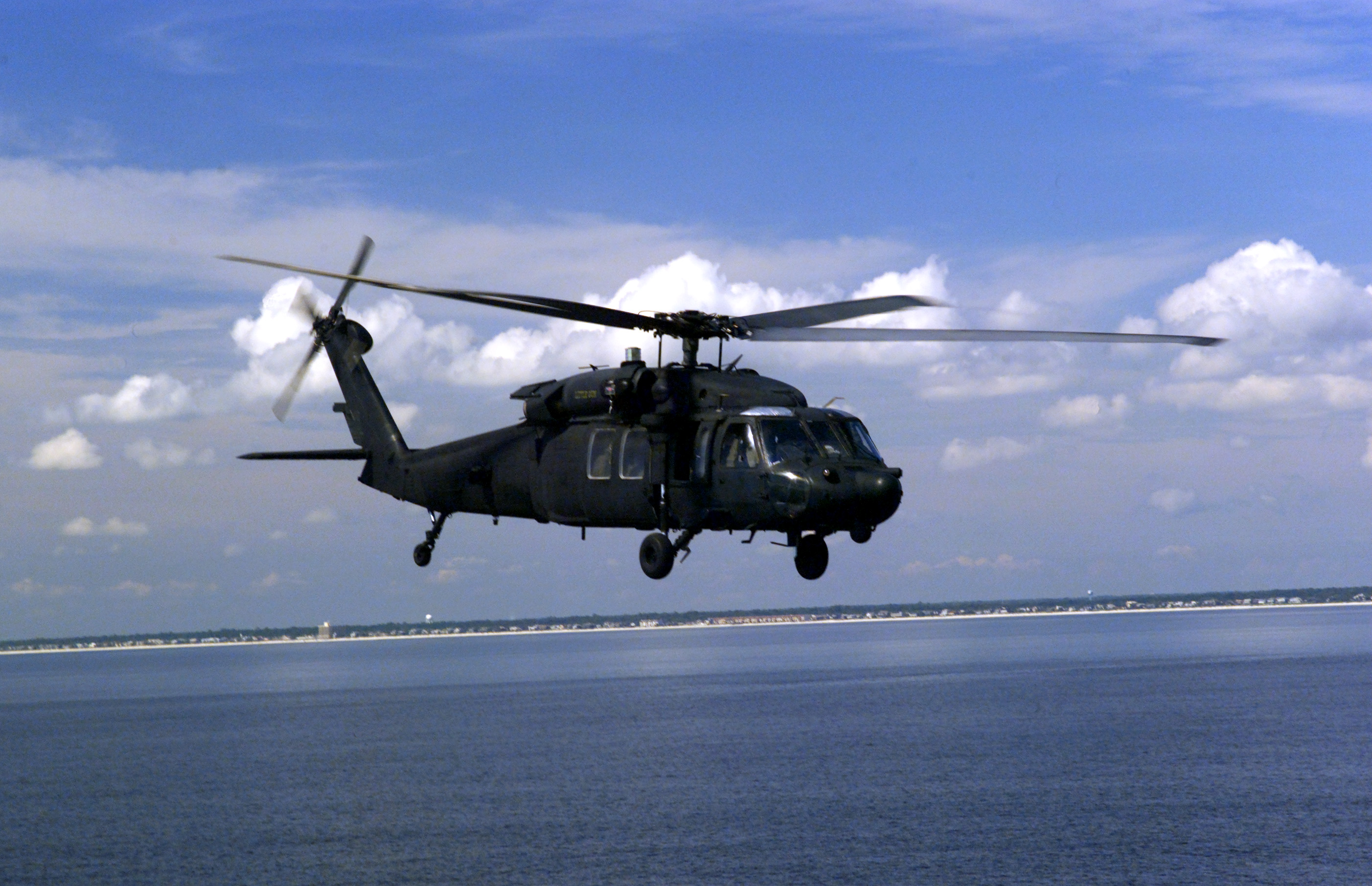 An MH-60L Black Hawk helicopter from Company D, 160th Special Operations Aviation Regiment (Airborne) flies low and fast along the Florida coastline Aug. 20 en route to its new home at Hunter Army Airfield, Ga. Three helicopters from Company D took off Aug. 19 from their former base at Naval Station Roosevelt Roads, Puerto Rico, to make the two-day, transoceanic flight.